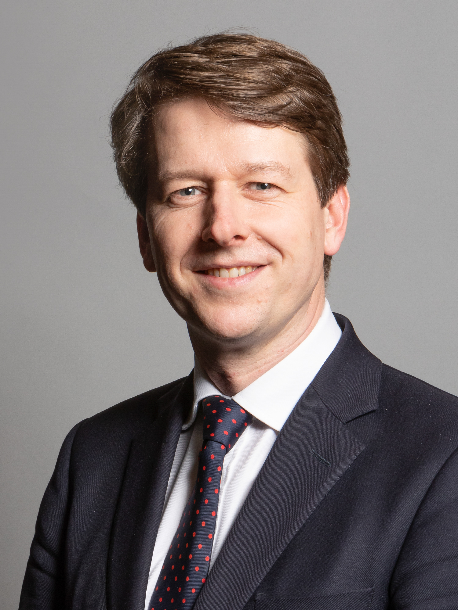 Official portrait of Mr Robin Walker MP 3×4 portrait of Mr Robin Walker